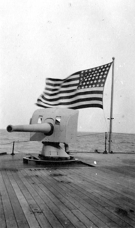 USS Kroonland (ID # 1541) Four-inch gun (Bethlehem Steel Co. 4 inch standard Mark IV) mounted on the ship's starboard quarter, with the National Ensign flying from the flagstaff beyond, 21 March 1919. U.S. Naval Historical Center Photograph.